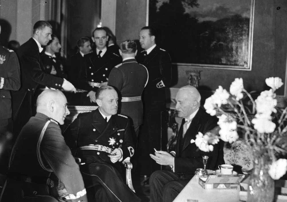 Joachim von Ribbentrop, Edward Rydz-Śmigły and Ignacy Mościcki. Warsaw, February 2009.